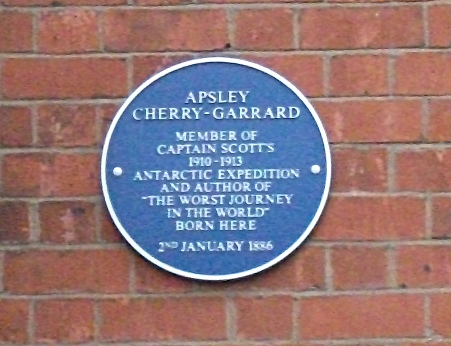 Blue plaque marking the birthplace of explorer Aspley Cherry-Garrard at 15 Lansdowne Road, Bedford, Bedfordshire.